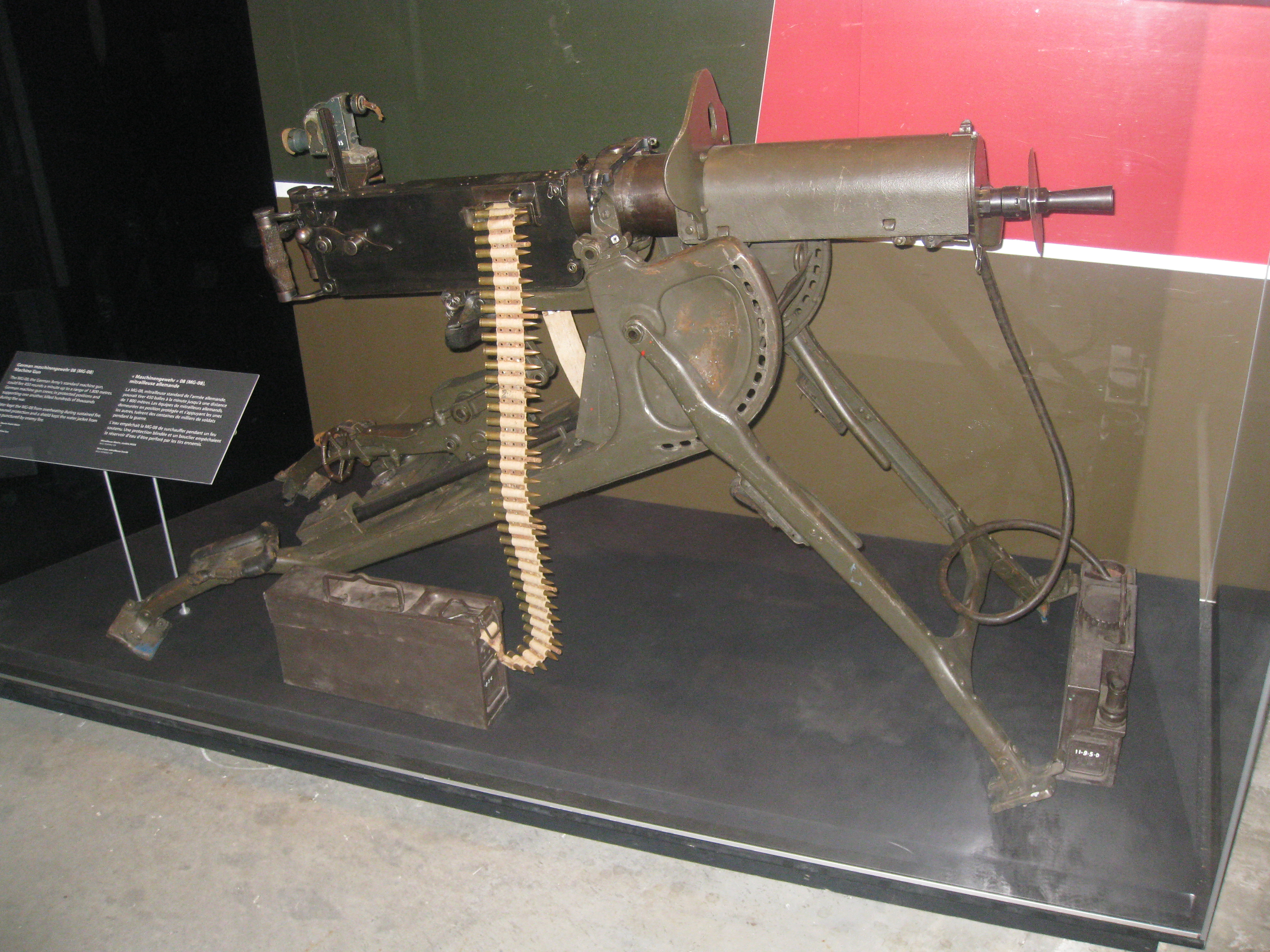 A MG 08 at the Canadian War Museum in Ottawa, Ontario. Photo of description plaque below. Photo of description plaque.